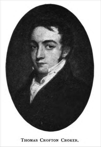 Painted portrait of Thomas Crofton Croker